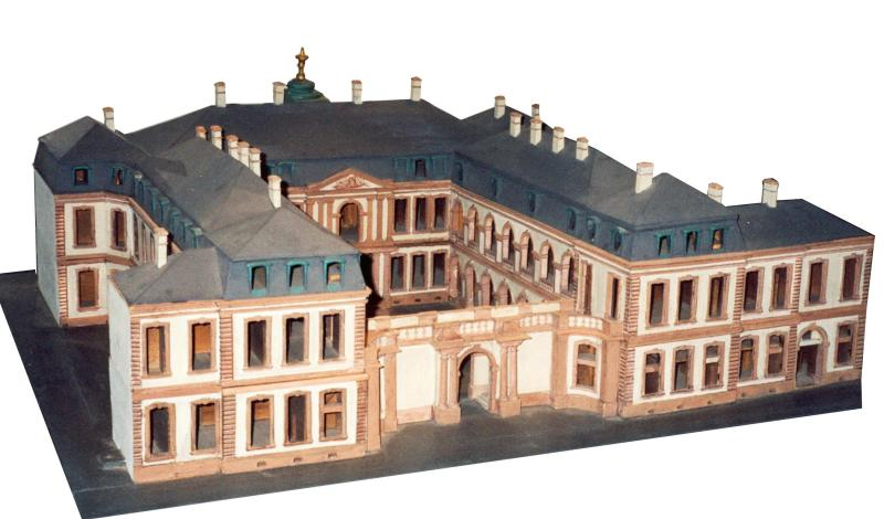 Modellphoto des Palais Thurn und Taxis in Frankfurt am Main